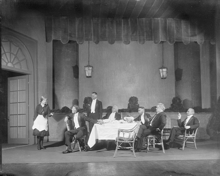 Photograph of scene designed by Jo Mielziner for George Bernard Shaw's "Doctor's Dilemma." Courtesy of the New York Public Library Digital Library.